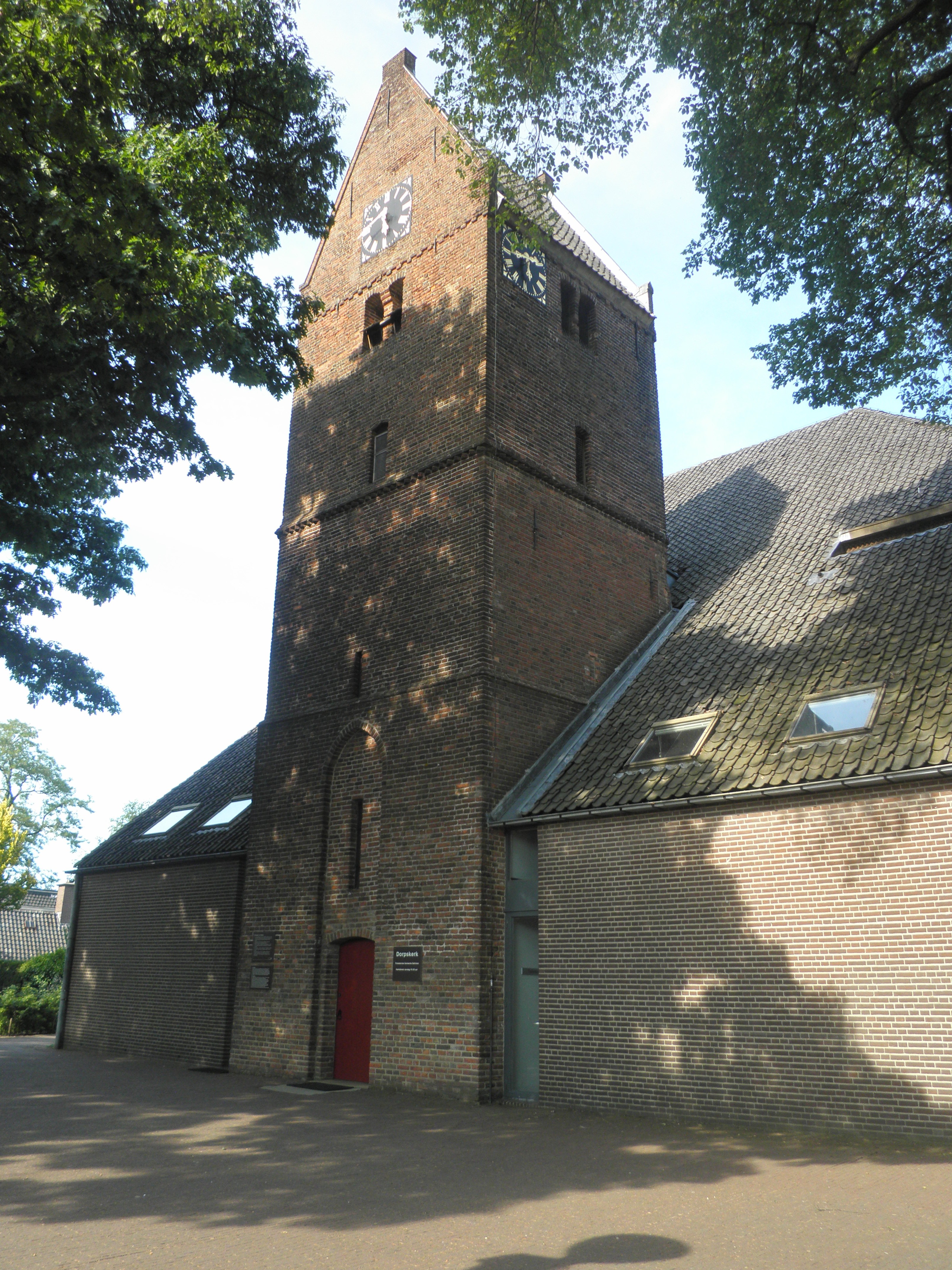 Tower of the Reformed Church in Bathmen, the Netherlands, with three walks and a gable roof. Entrance with segmental arch in high ogive recess. Nationally listed heritage.